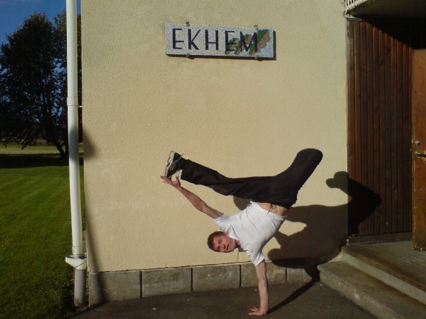 A breakdance nike freeze